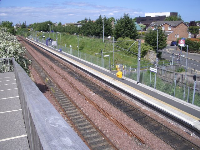 Brunstane railway station Original description: Brunstane Station